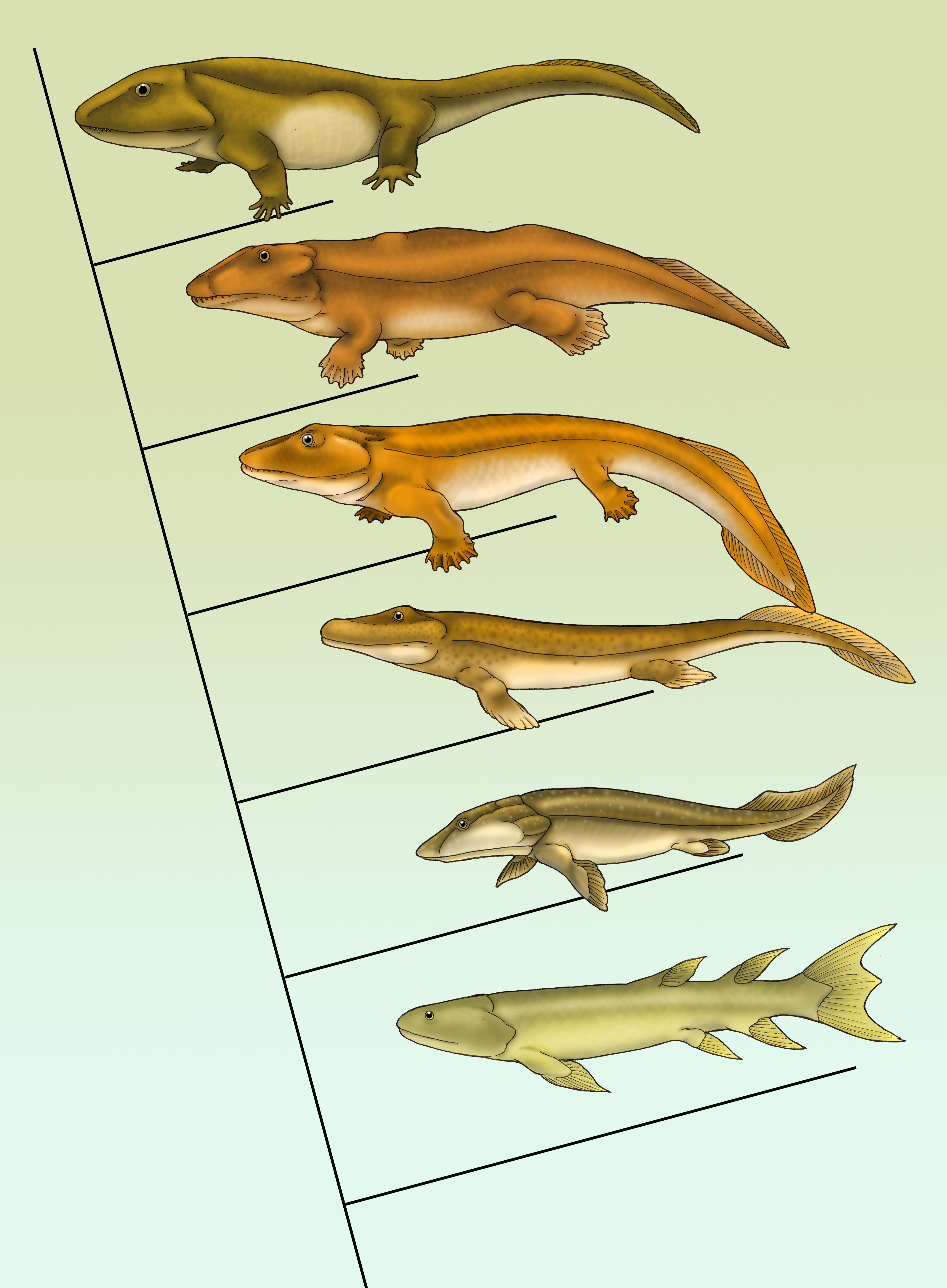 A cladogram of the evolution of tetrapods showing the best-known transitional fossils. From bottom to top: Eusthenopteron, Panderichthys, Tiktaalik, Acanthostega, Ichthyostega, Pederpes.